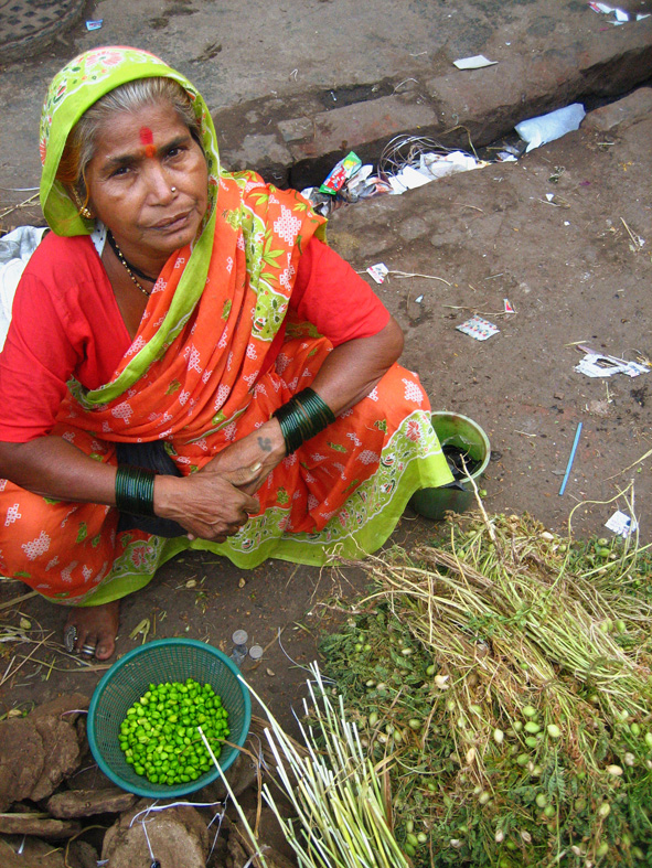 A Maharastran woman selling ceremonial items for the Holi Festival. Note the cow dung 'cakes' in the bottom right hand corner which are burnt as offerings at this time. The green vegetables are fresh chickpeas. Also note her great toe rings & green bangles which indicate she is married.Sidewalk Seller